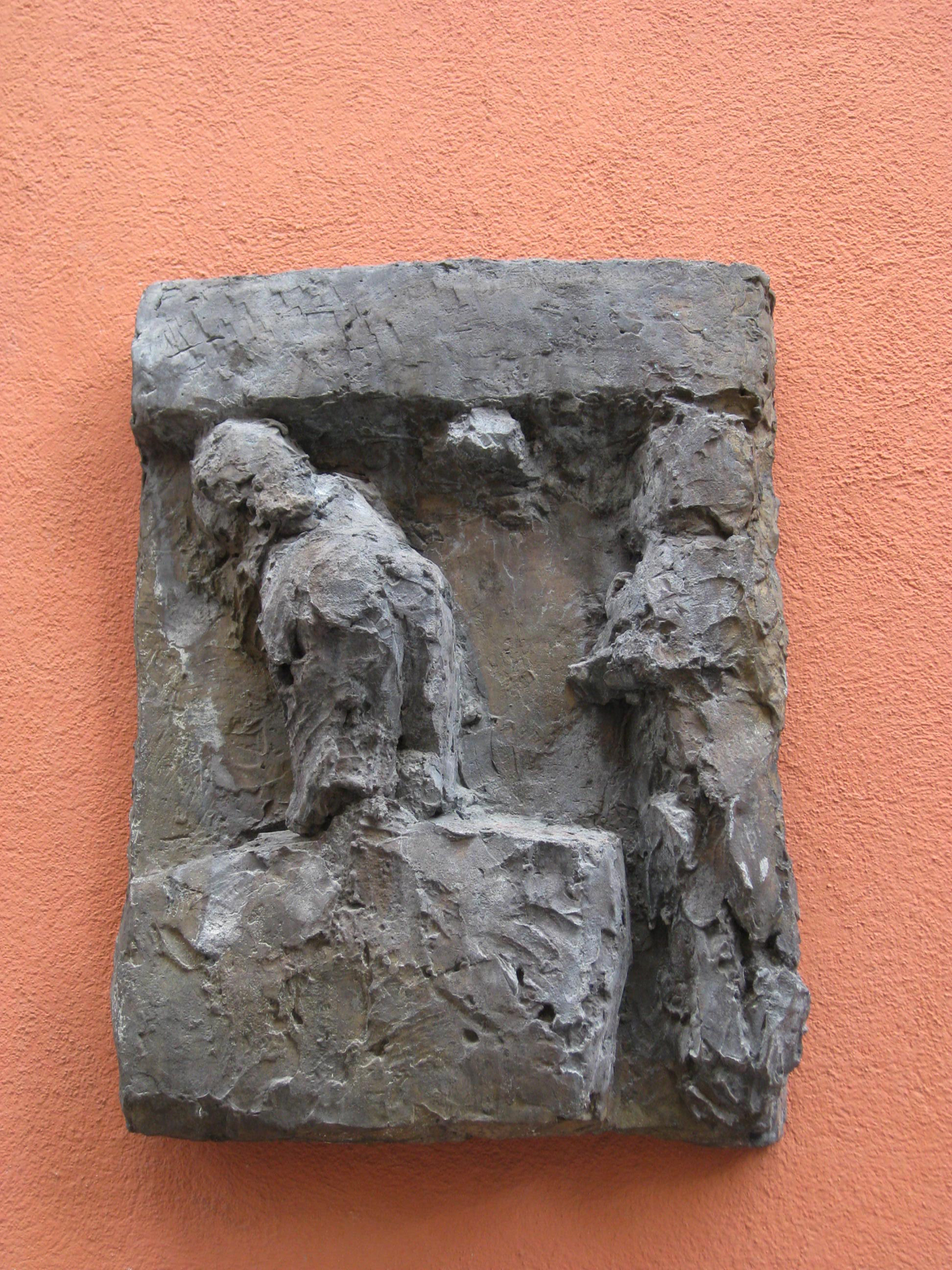 Hans Josephsohn, wall relief, 2005, - Switzerland, Graubuenden, Chur, historic center